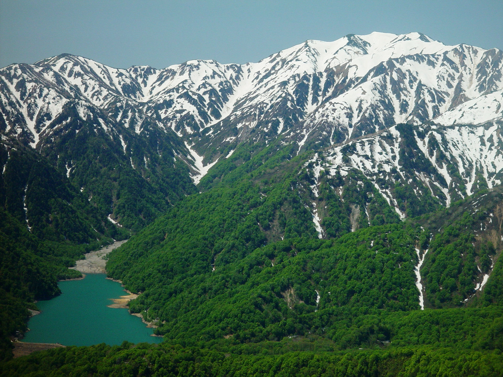 Hakusui_lake and Mount Bessan